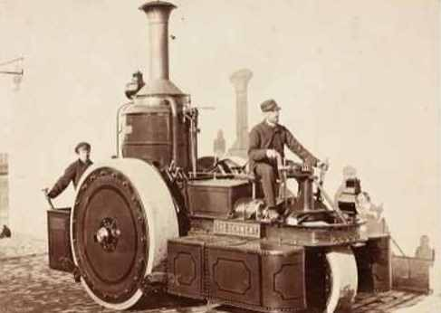 'Light' Steam tricycle by Robert William Thomson. The vehicle had two 6 hp horizontal engines, a centrally mounted, vertical boiler and Thomson's 1867 patented solid rubber tires. C. 1870.